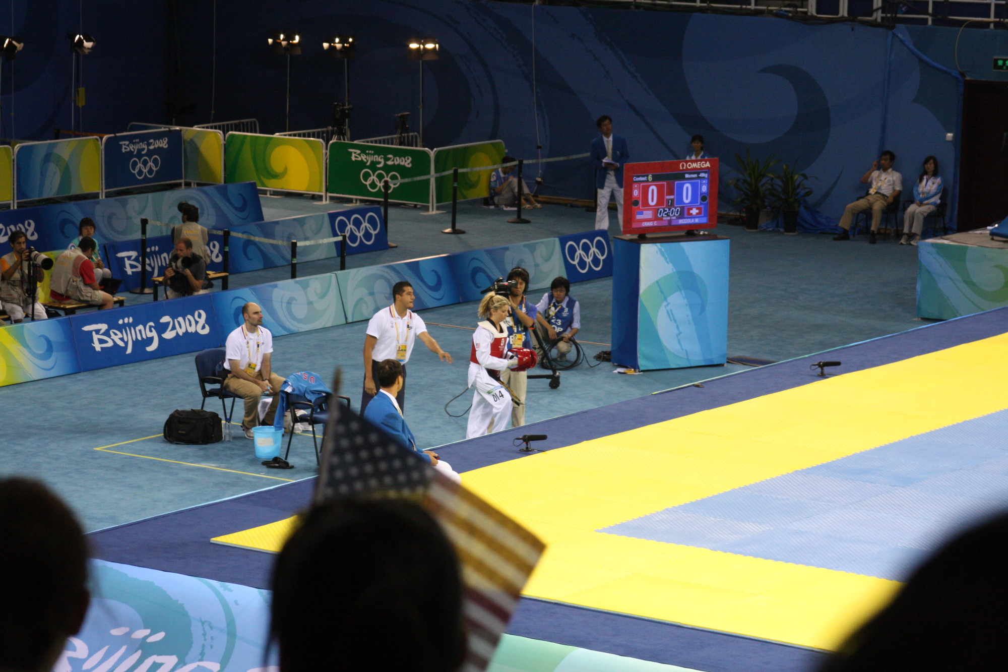 2008 Summer Olympics Taekwondo - Charlotte Craig (USA) before fighting Manuela Bezzola (SUI)